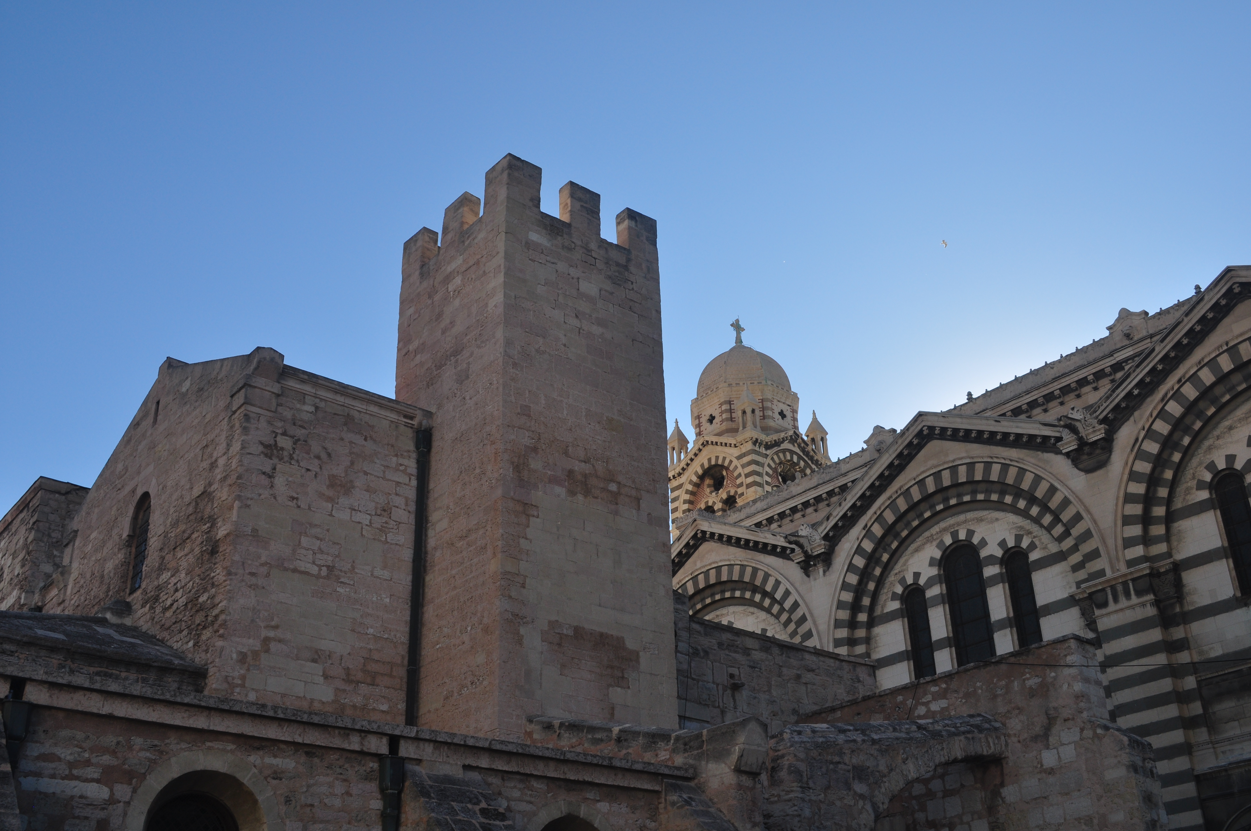 Marseille(France).Old Sainte-Marie-Majeure Cathedral